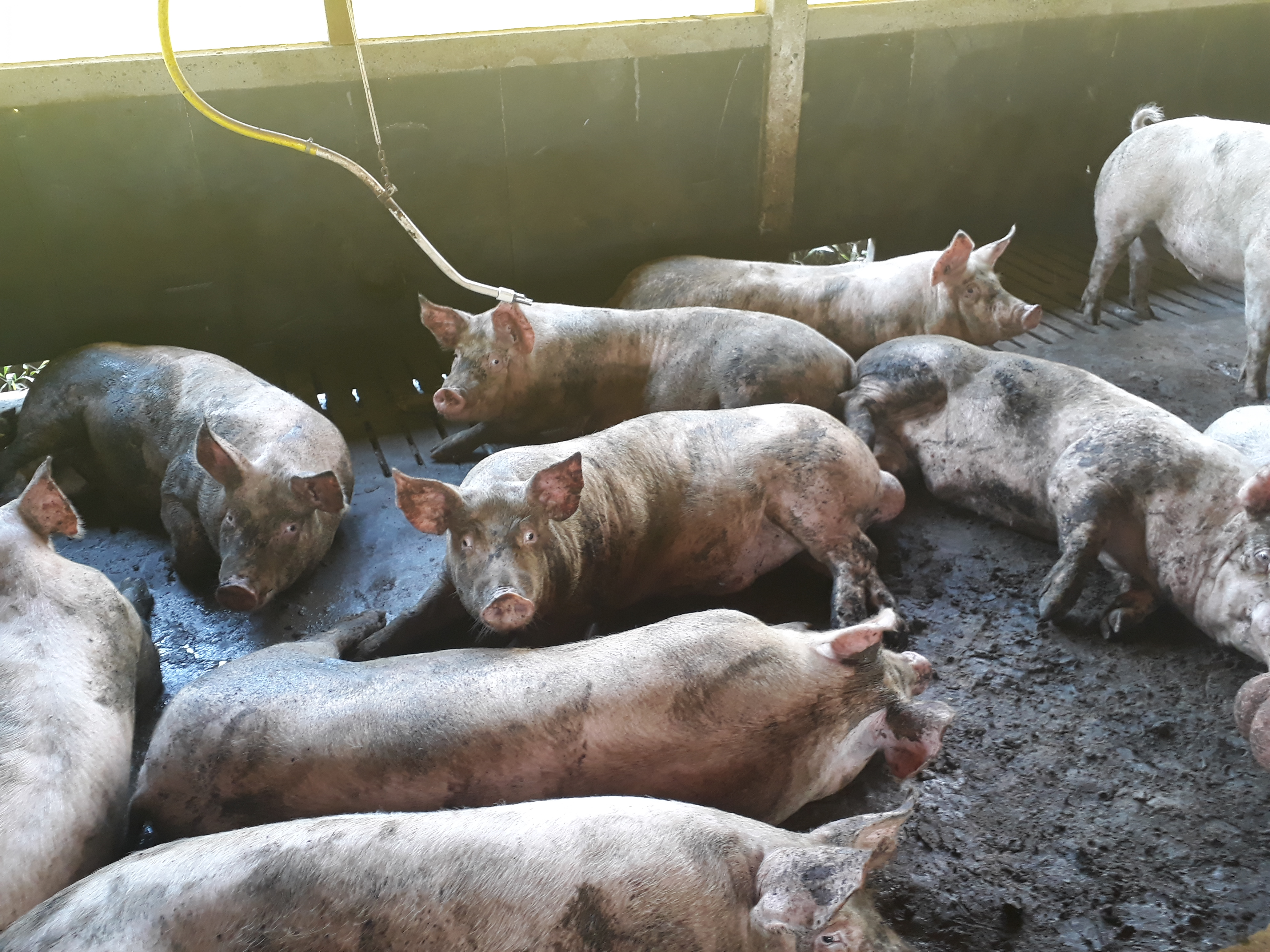 2,200 swines fattening each quarter. Yearly: 6,600 pigs.